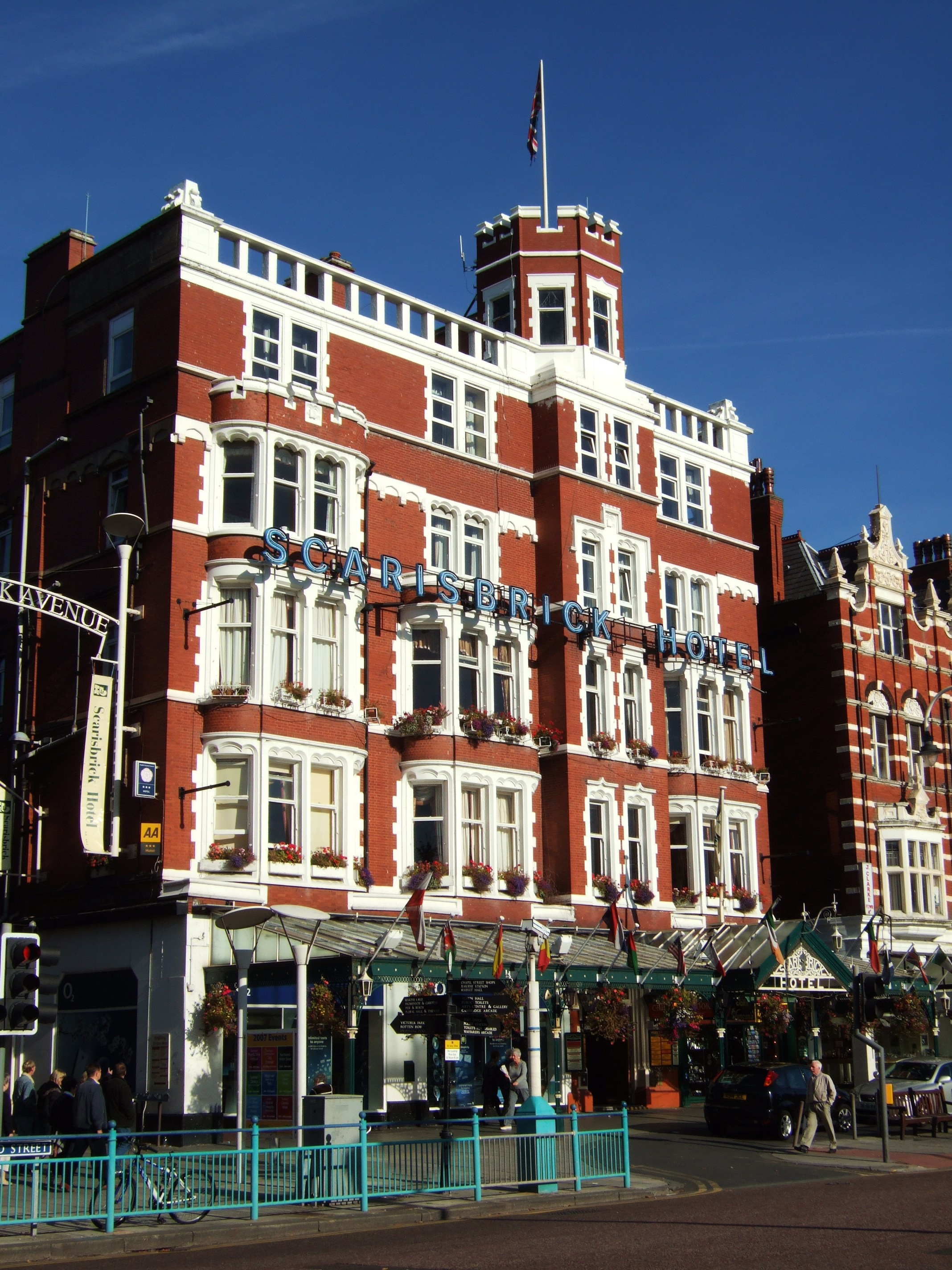 The Scarisbrick Hotel, situated on Lord Street in Southport, Merseyside, England.